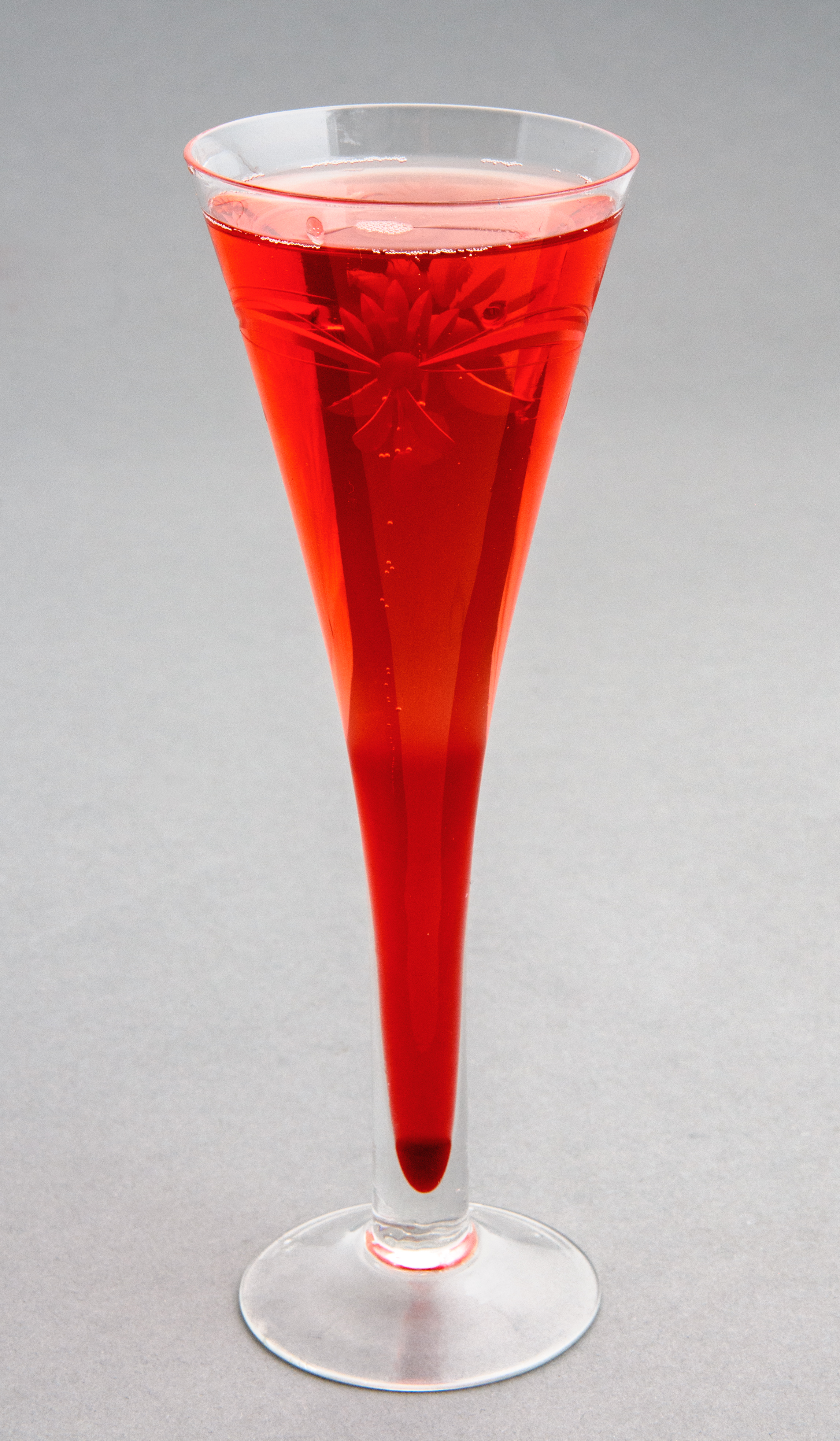 Kir Royal, a cocktail made of Crème de Cassis and [:en:Champagne